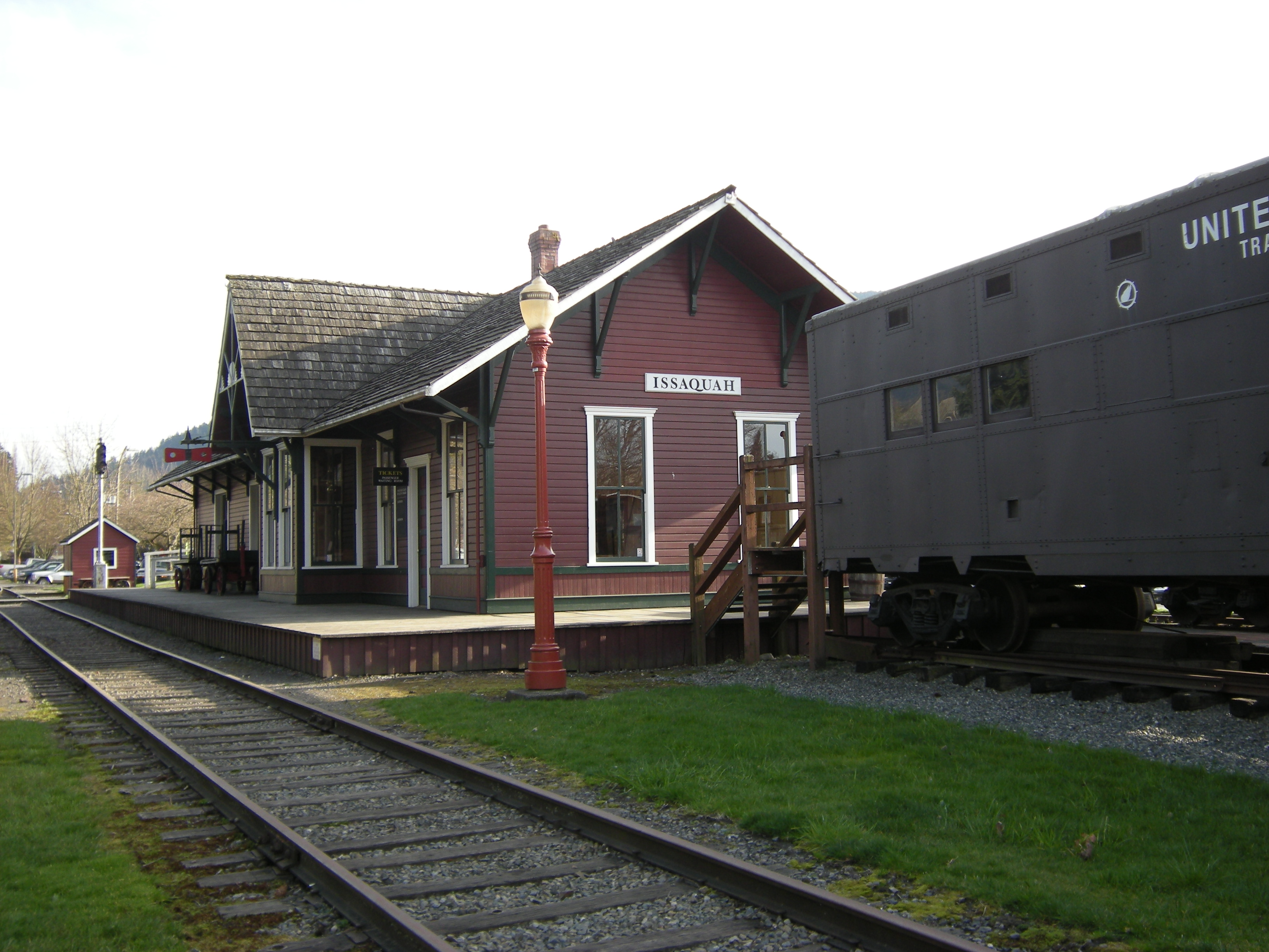 Issaquah Depot, Issaquah, Washington. The disused and restored railway station is on the National Register of Historic Places.